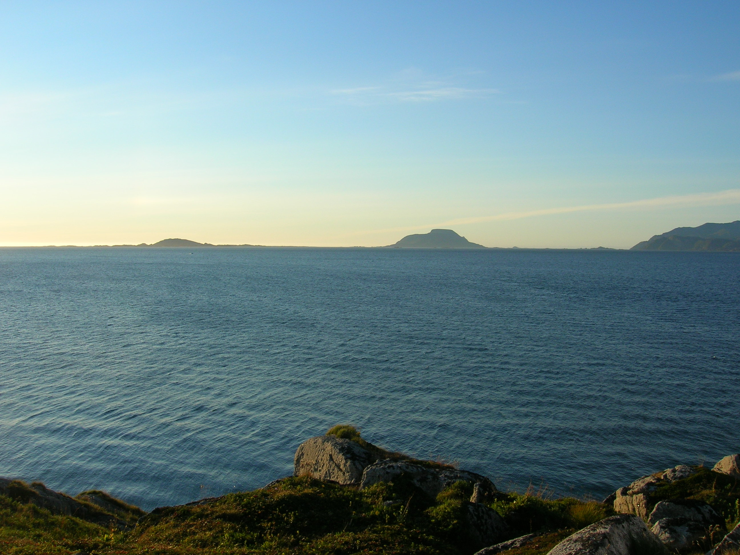 Sandøya and Risøya